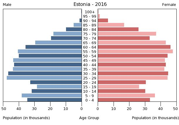 The population pyramid of Estonia illustrates the age and sex structure of population and may provide insights about political and social stability, as well as economic development. The population is distributed along the horizontal axis, with males shown on the left and females on the right. The male and female populations are broken down into 5-year age groups represented as horizontal bars along the vertical axis, with the youngest age groups at the bottom and the oldest at the top. The shape of the population pyramid gradually evolves over time based on fertility, mortality, and international migration trends.